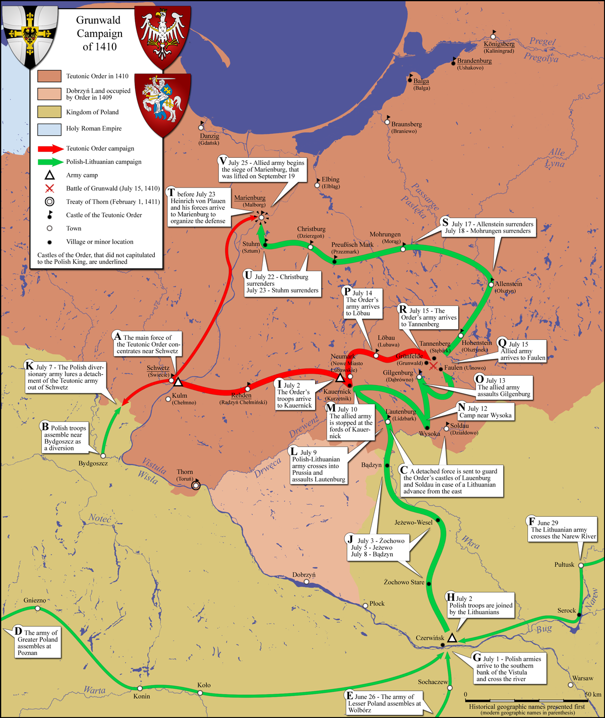 The Way to Grunwald 1410 and the First Peace of Thorn 1411.